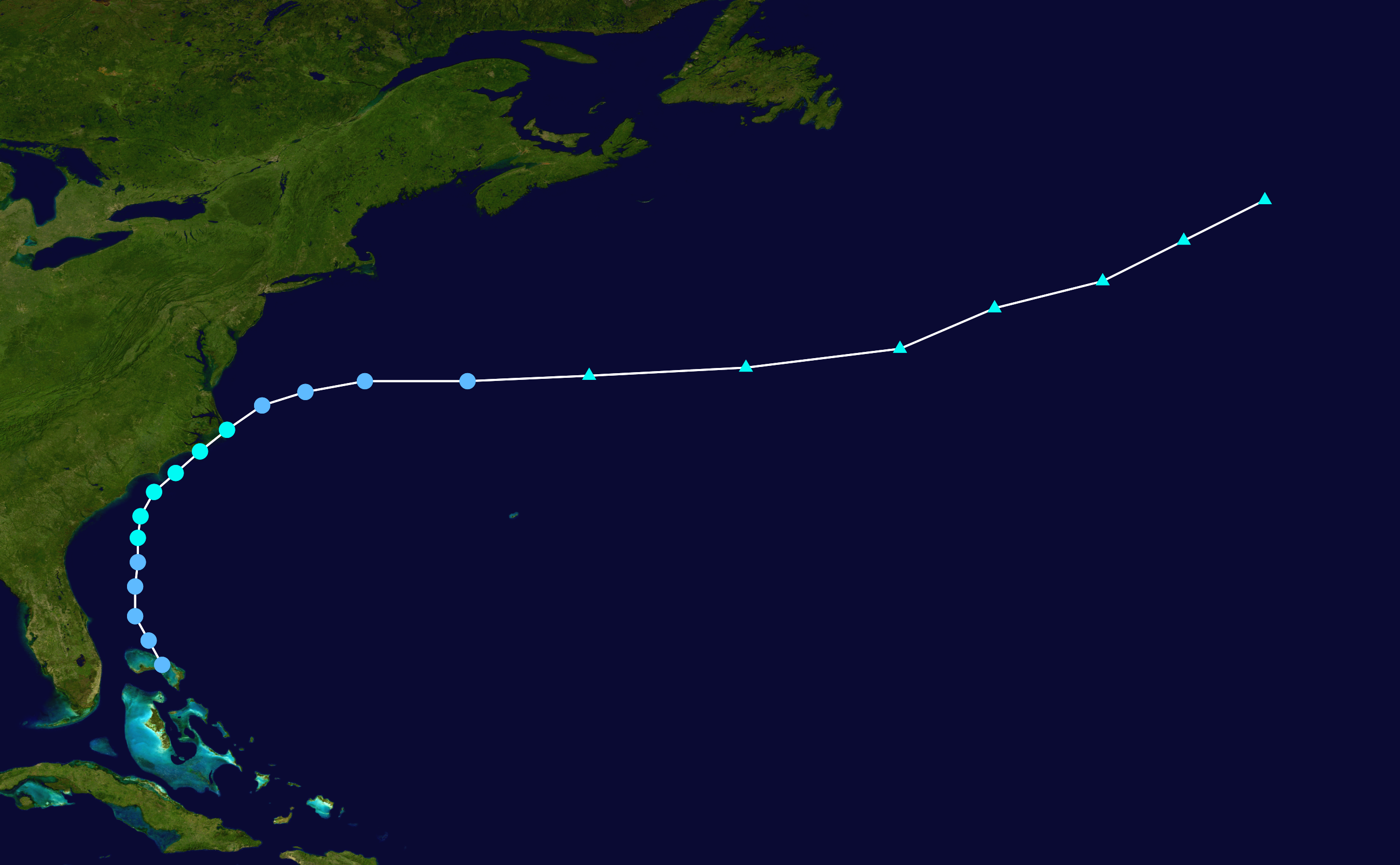 Track map of Tropical Storm Arthur of the 1996 Atlantic hurricane season. The points show the location of the storm at 6-hour intervals. The colour represents the storm's maximum sustained wind speeds as classified in the Saffir–Simpson scale (see below), and the shape of the data points represent the nature of the storm, according to the legend below. Saffir–Simpson scale Tropical depression≤38 mph≤62 km/h Category 3111–129 mph178–208 km/h Tropical storm39–73 mph63–118 km/h Category 4130–156 mph209–251 km/h Category 174–95 mph119–153 km/h Category 5≥157 mph≥252 km/h Category 296–110 mph154–177 km/h Unknown Storm type Tropical cyclone Subtropical cyclone Extratropical cyclone / Remnant low / Tropical disturbance / Monsoon depression